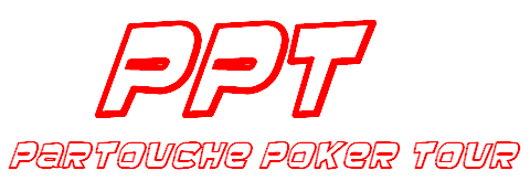 PPT logo make by Dimcho H. Dimov